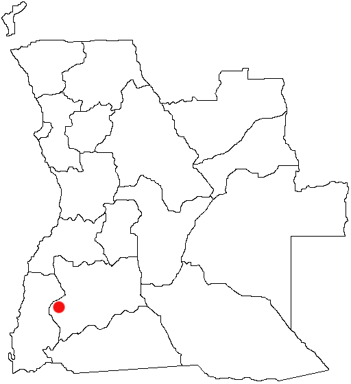 Lubango, Angola Location Map; created with the GIMP. Made by User:Acntx.